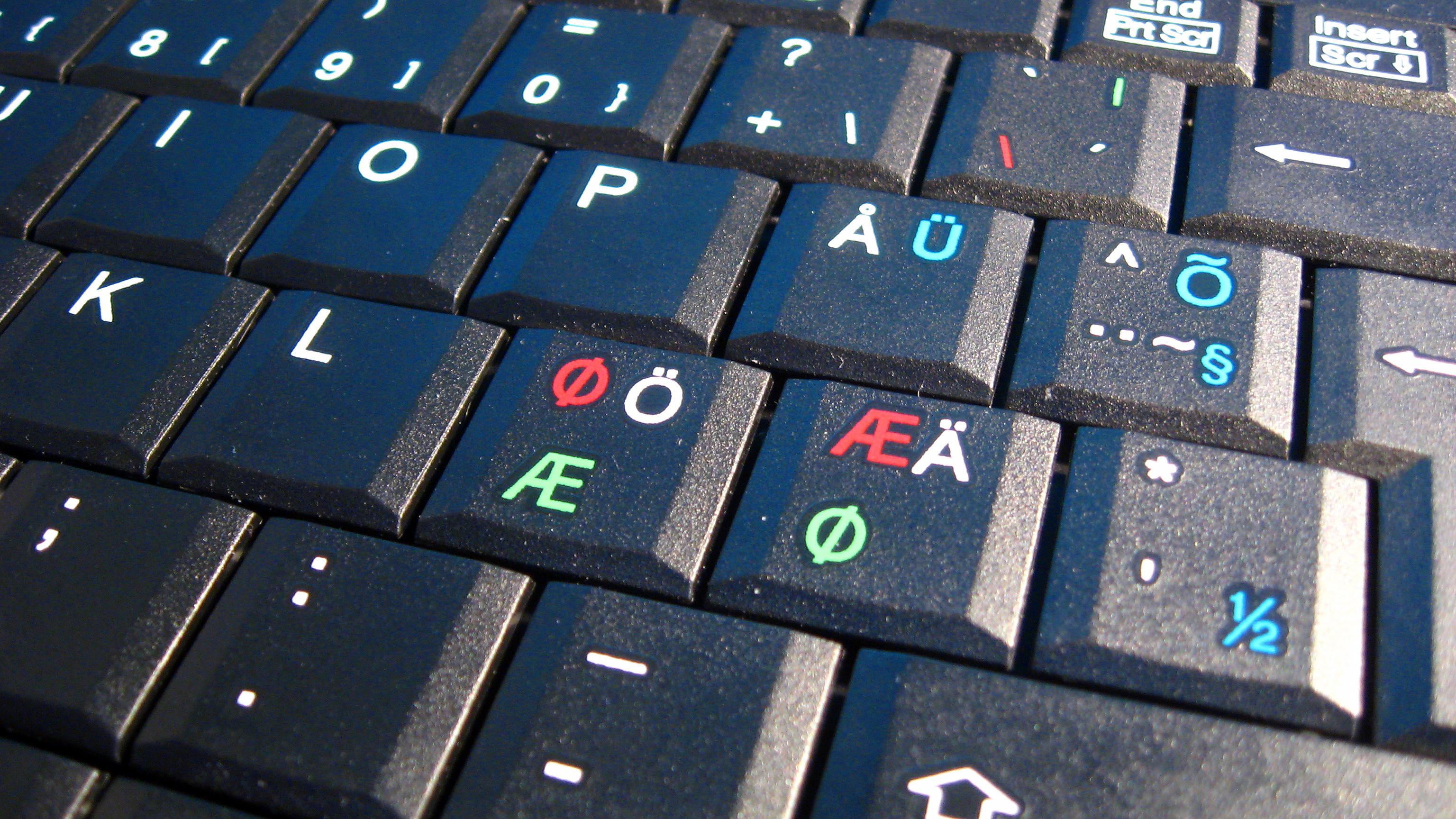 a laptop keyboard with Scandinavian characters